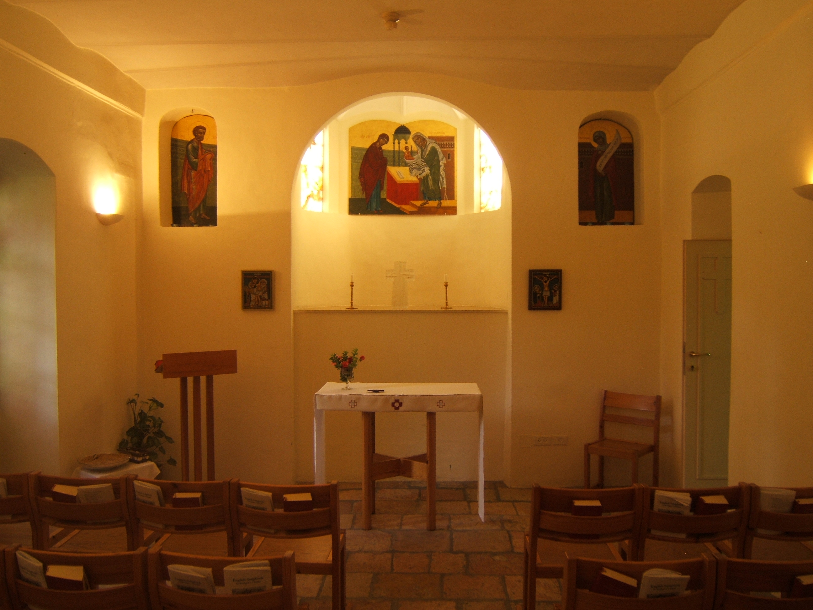 Thabor House, Jerusalem